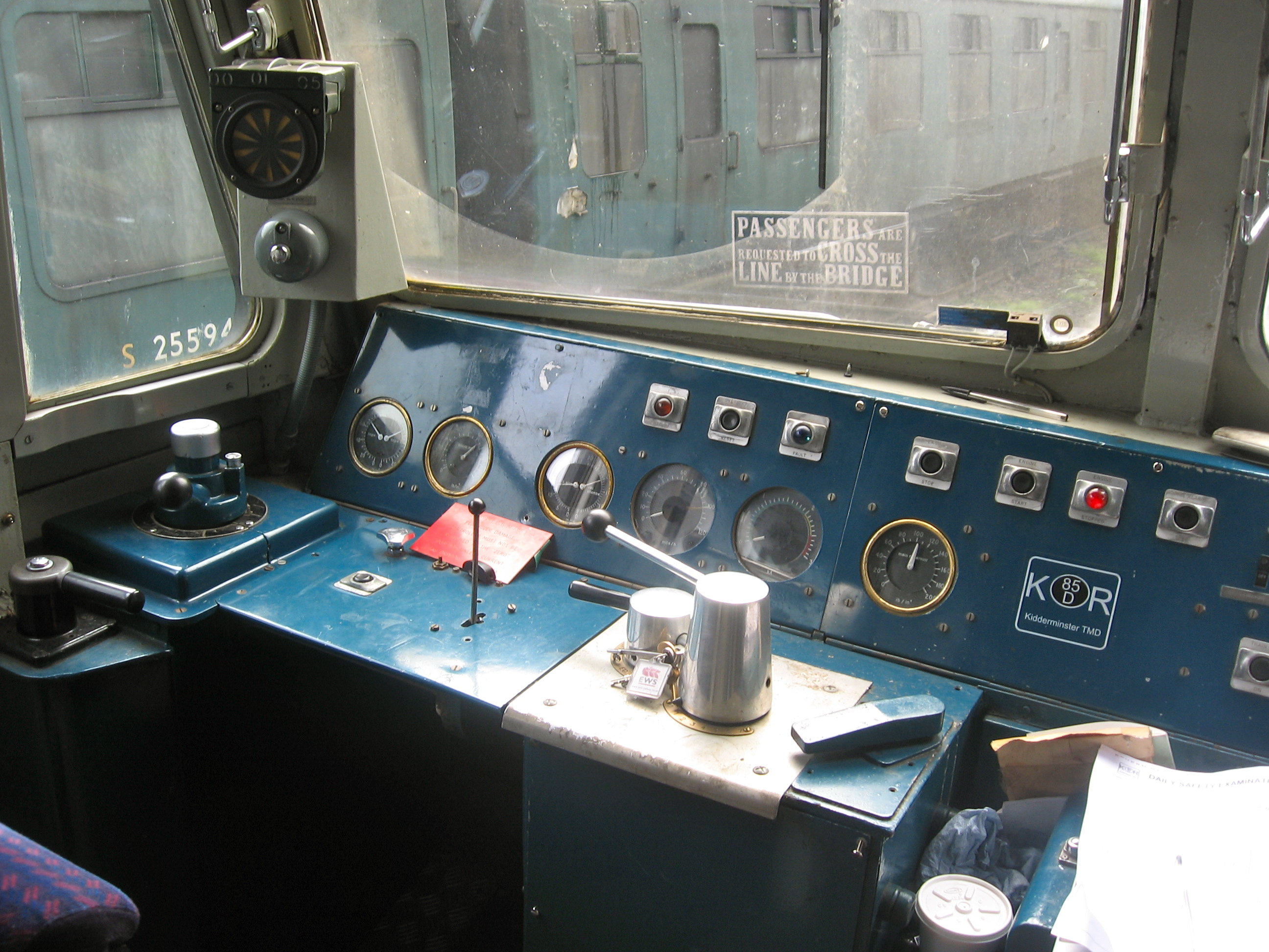 Class 50 cab